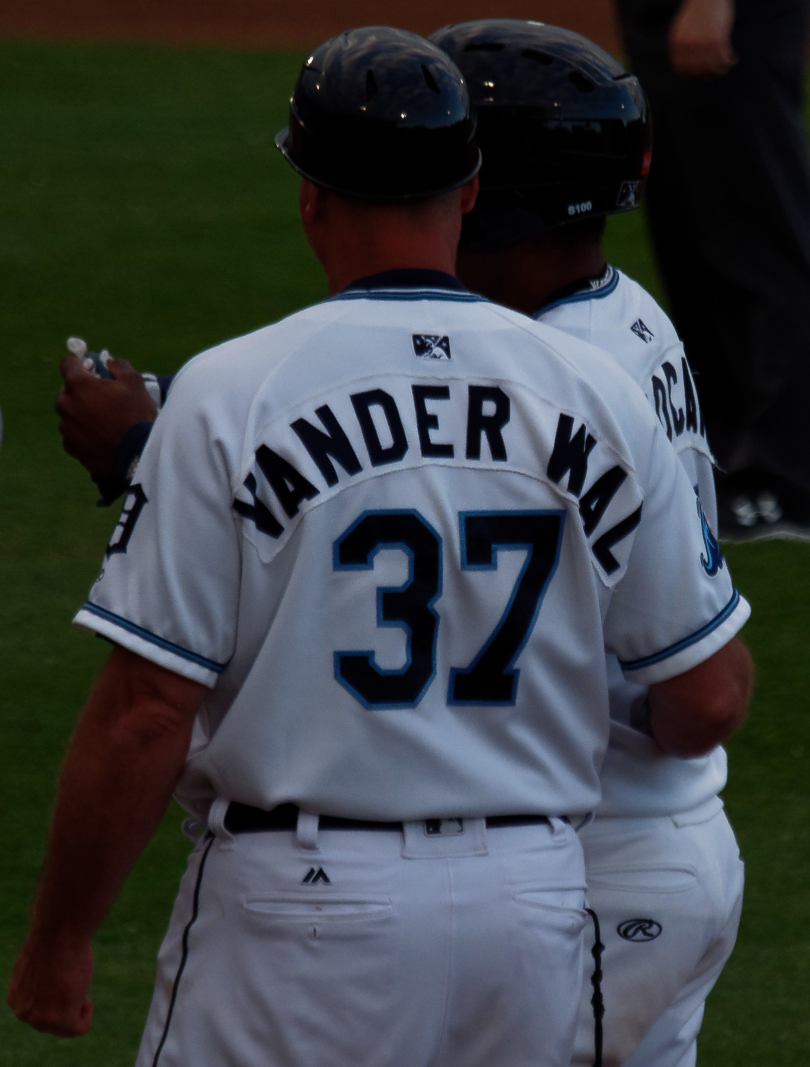 John Vander Wal and Jose Azocar of the West Michigan Whitecaps during a game against the South Bend Cubs in Comstock Park, Michigan in 2018